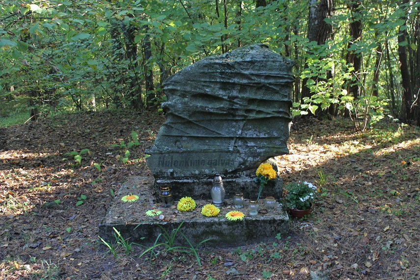 The Jews of Skuodas Holocaust graves near Dimitravas, Kretinga district, Lithuania